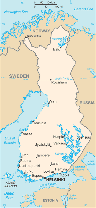 A map of Finland, showing major cities.